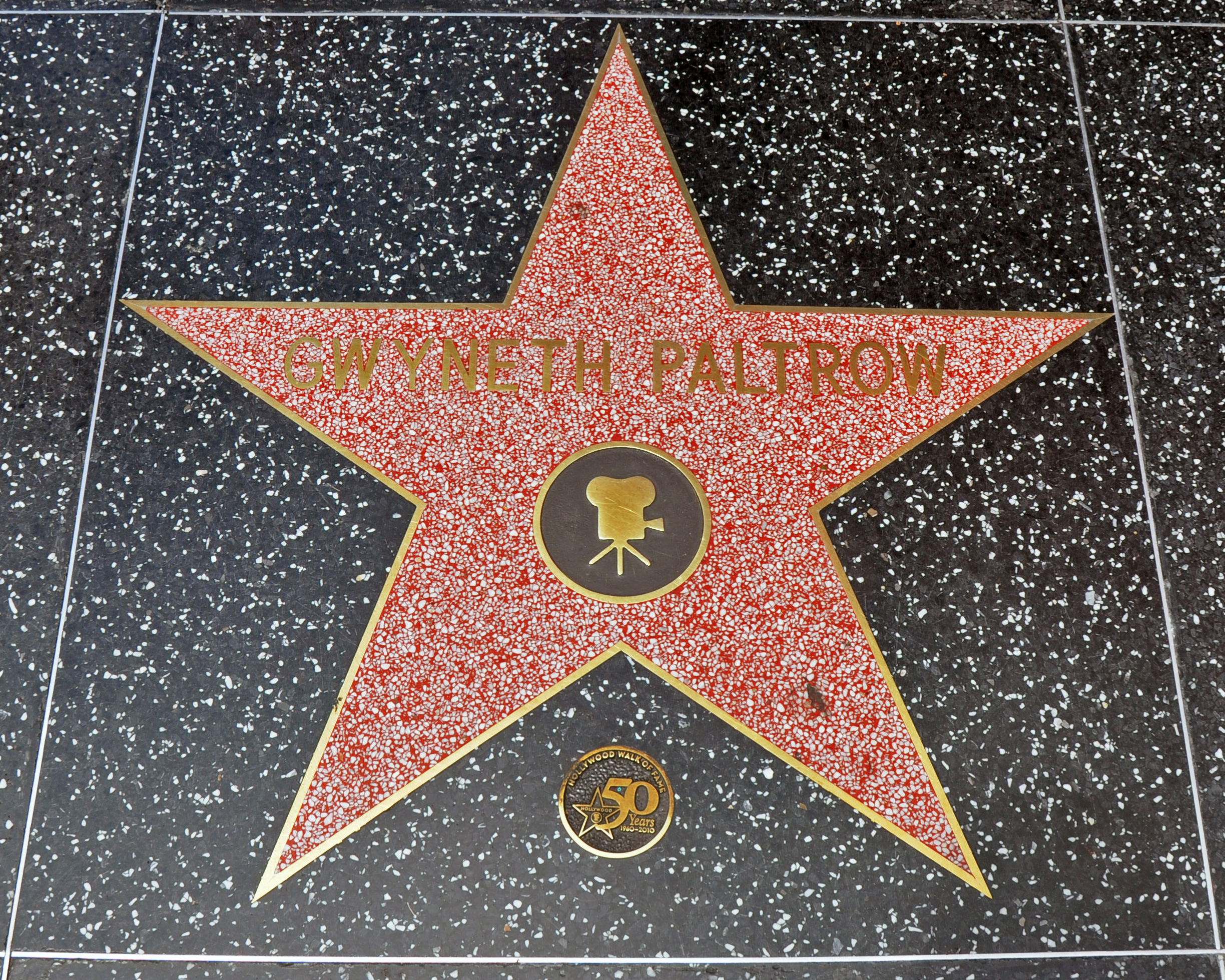 Stella di Gwyneth Paltrow sulla Hollywood Walk of Fame - Agosto 2011.